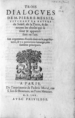 Title page of Trois dialogues de M. Pierre Messie, touchant la nature du Soleil, de la Terre, & de toutes les choses. Originally published in Spanish by Pedro Mexía . Translated into French by Marie De Cotteblanche .